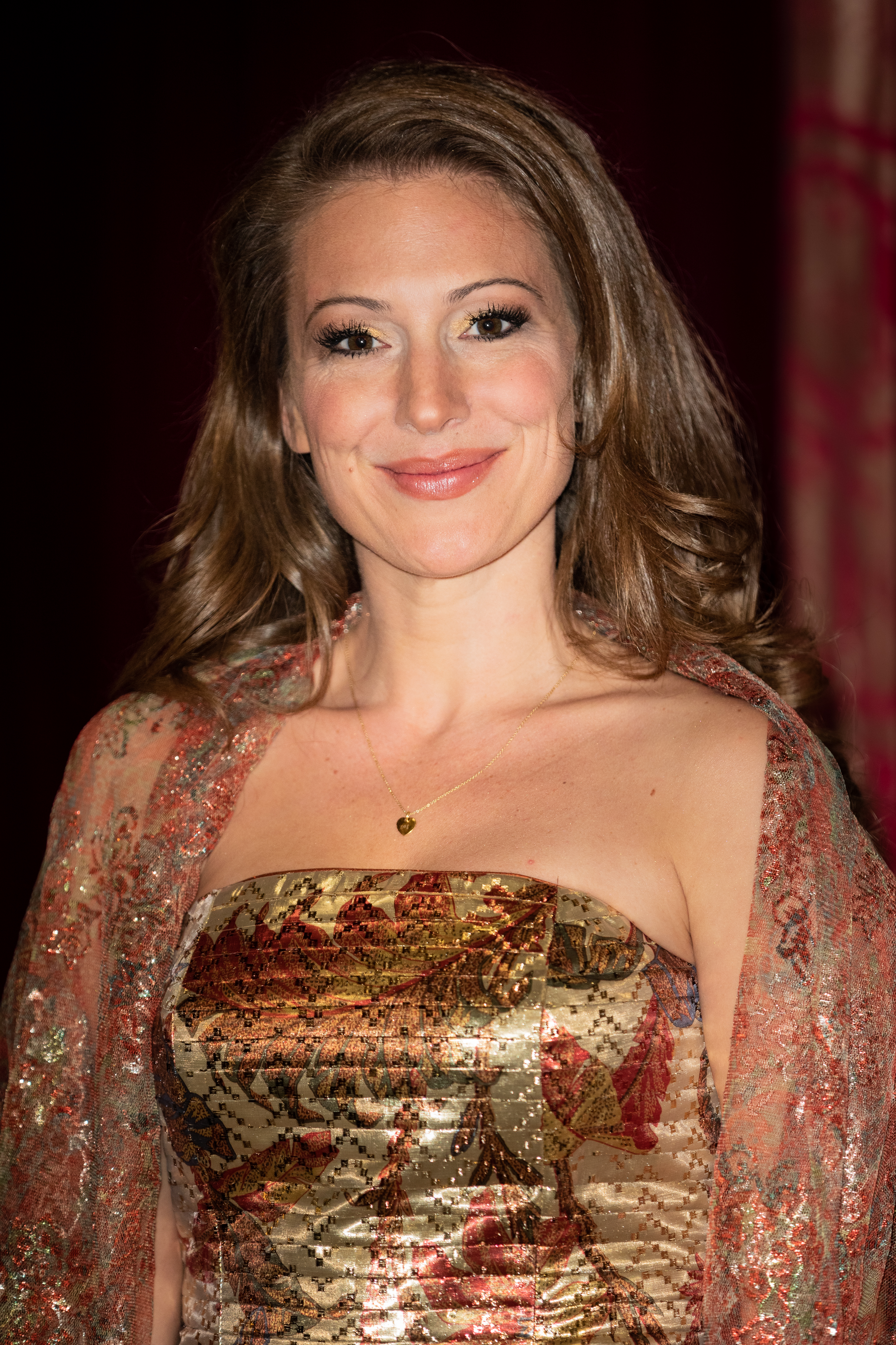 Mara Bergmann on the red carpet of the Hessian Film and Cinema Prize 2019 in the Alte Oper Frankfurt.